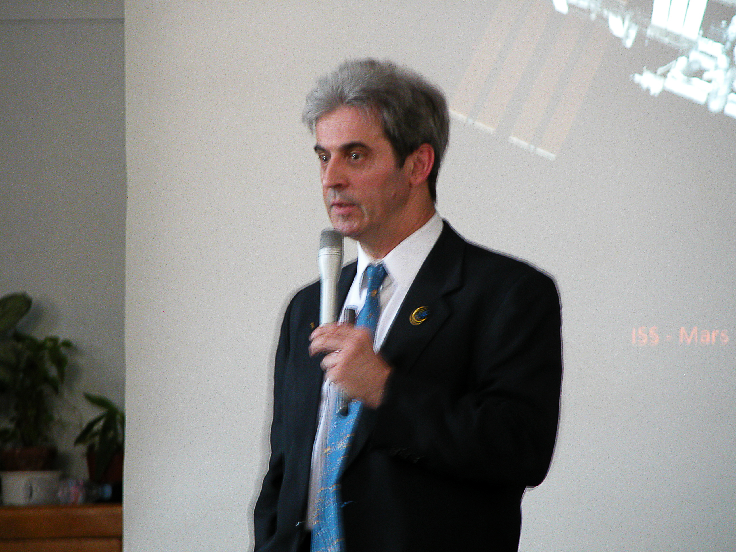 Léopold Eyharts during a conference in a school of Vincennes